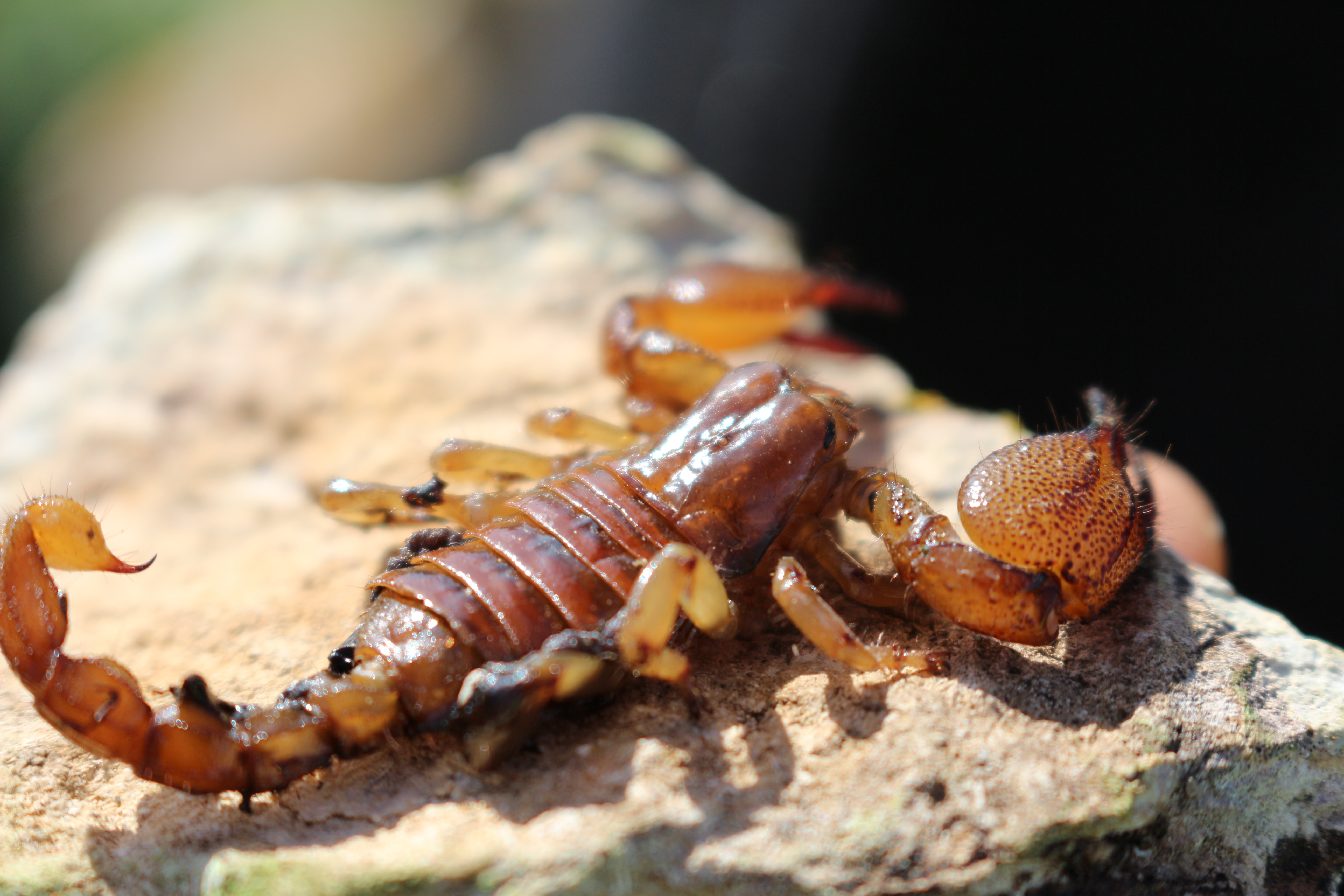 Euscorpius flavicaudis or the Mediterranean yellow-tailed scorpion comes from Northwest Africa and Southern Europe. I Found it in pitfall trap in Kef Chegag, a rocky and warm temperate climate area near Mateur, Bizerte, Tunisia.